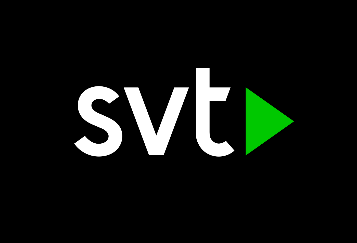 Logo for the Swedish streaming service SVT Play